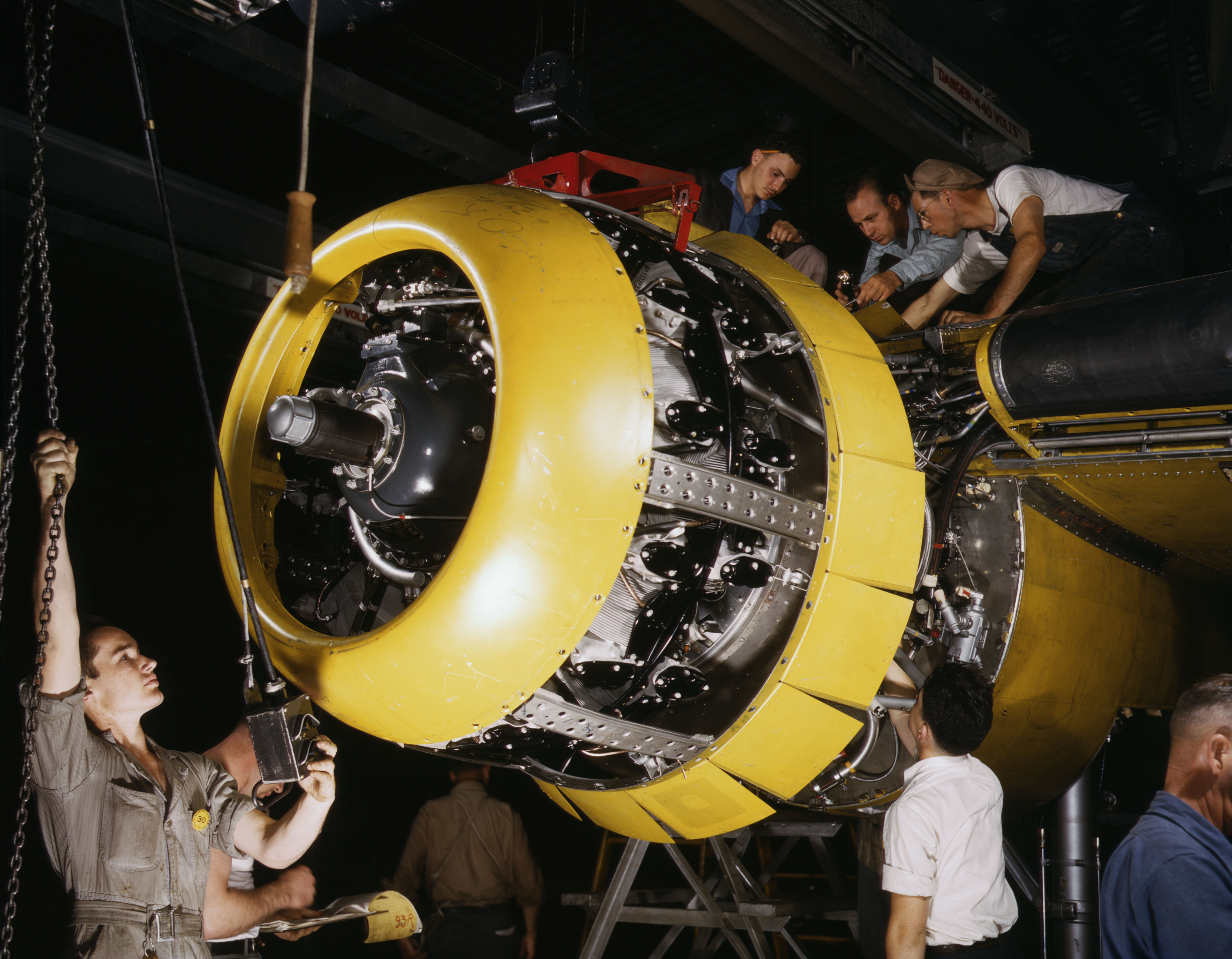 Mounting of a Wright R-2600 Cyclone engine on a North American B-25 Mitchell bomber, at North American Aviation, Inglewood, California (USA). The Wright R-2600 was the standard engine on the B-25.[1] Original description: "Mounting motor [on a] Fairfax B-25 bomber, at North American Aviation, Inc., plant in [Inglewood], Calif."